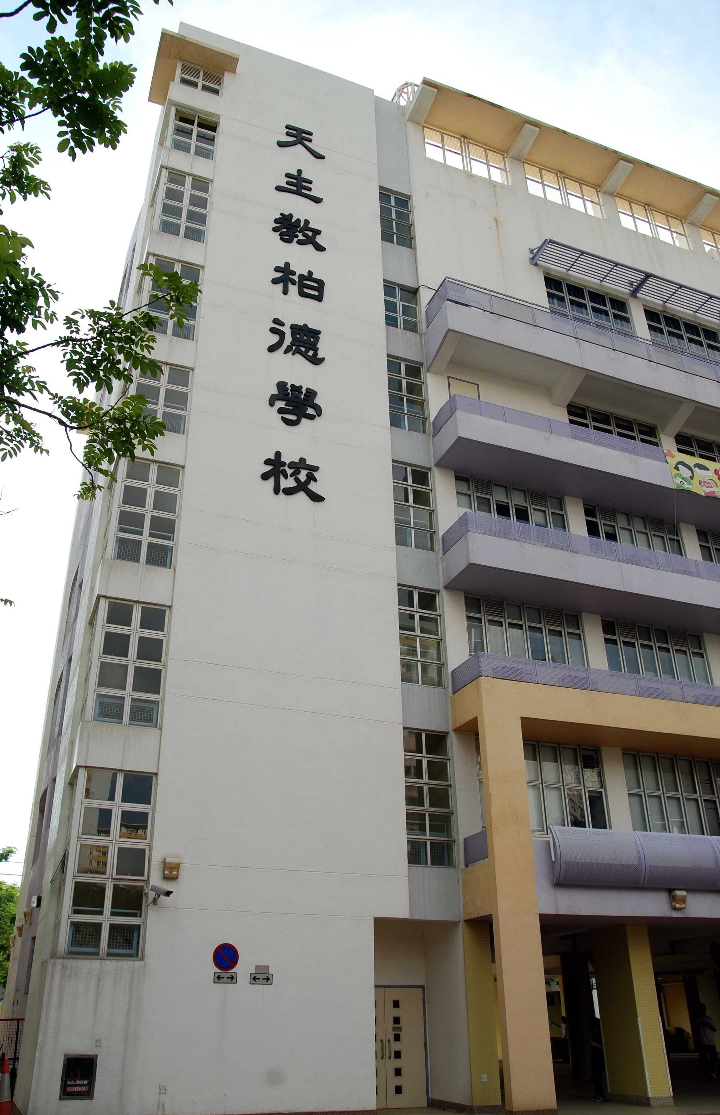 A corner in Bishop Paschang Catholic School